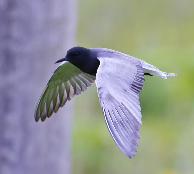 A Black Tern flying in Iceland.